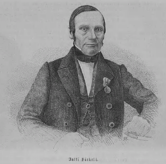 Drawing of the Finnish watchmaker Antti Särkelä (1804–1873). Published in Maiden ja merien takaa magazine issue 12/1865.